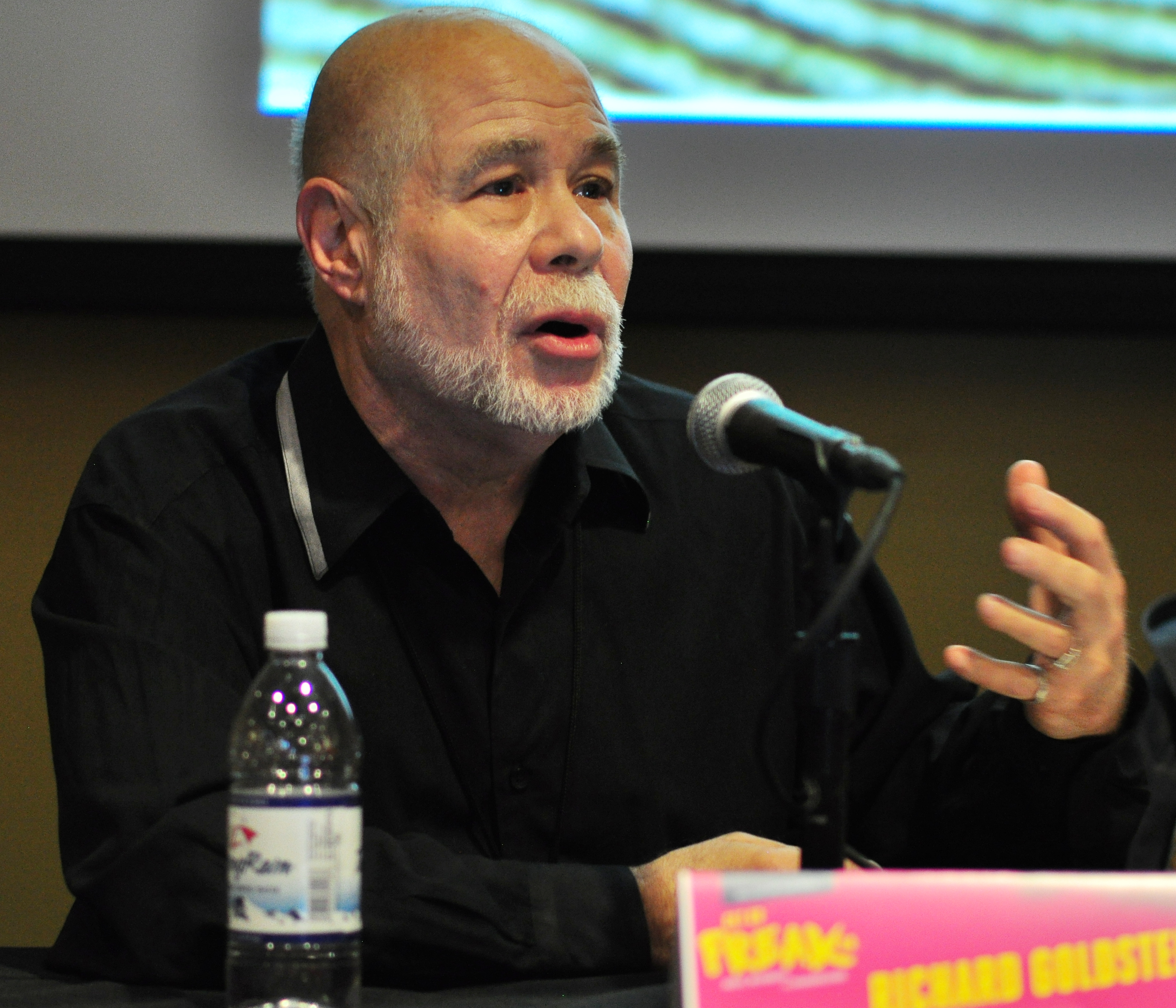 Richard Goldstein on the "Early Rock Critics" panel, Saturday, April 18, 2015, Pop Conference 2015. Learning Labs, EMP Museum, Seattle, Washington.